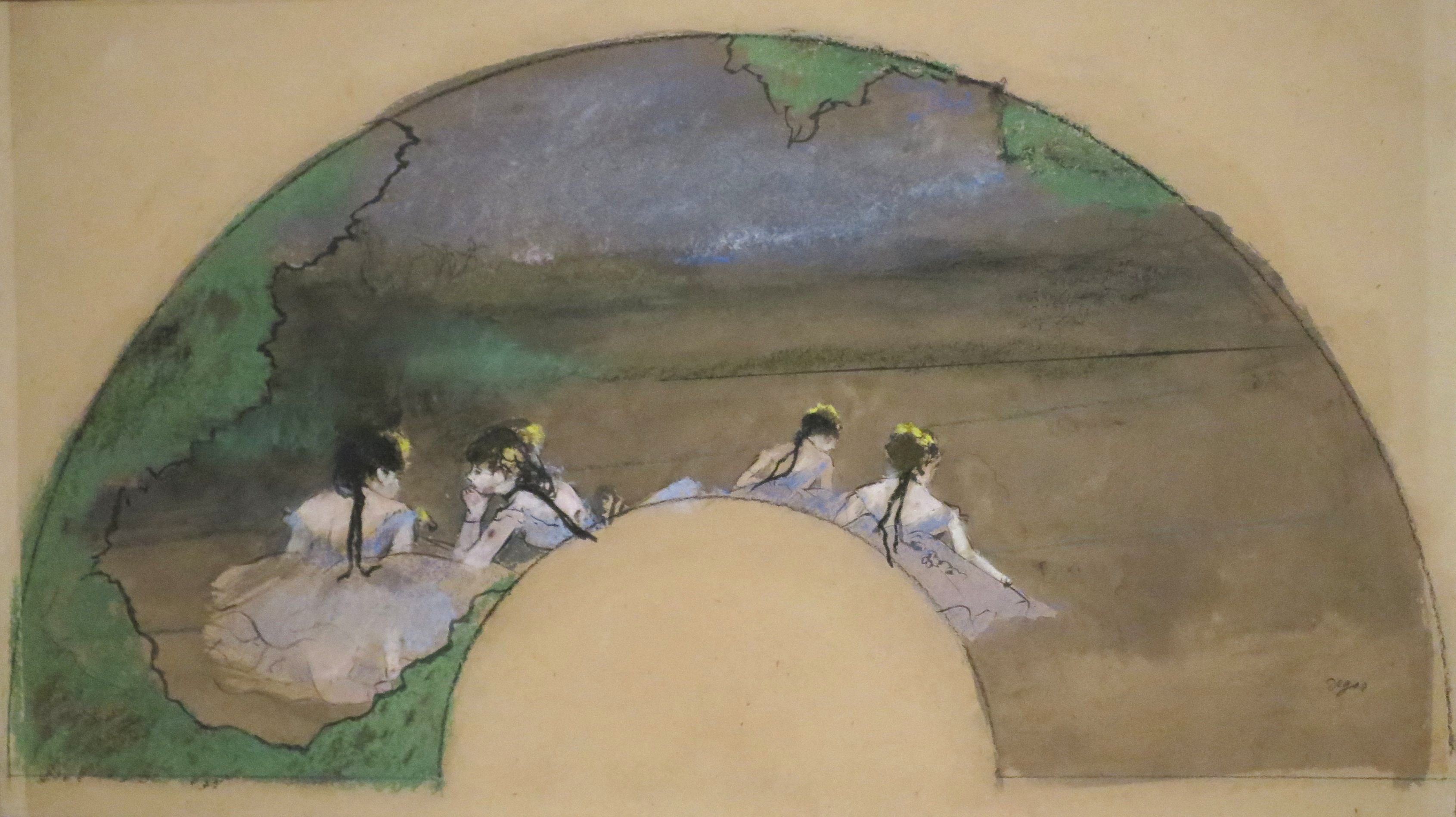 Fan: Dancers on the Stage by Edgar Degas, c. 1879, pastel with ink and wash on paper, Norton Simon Museum